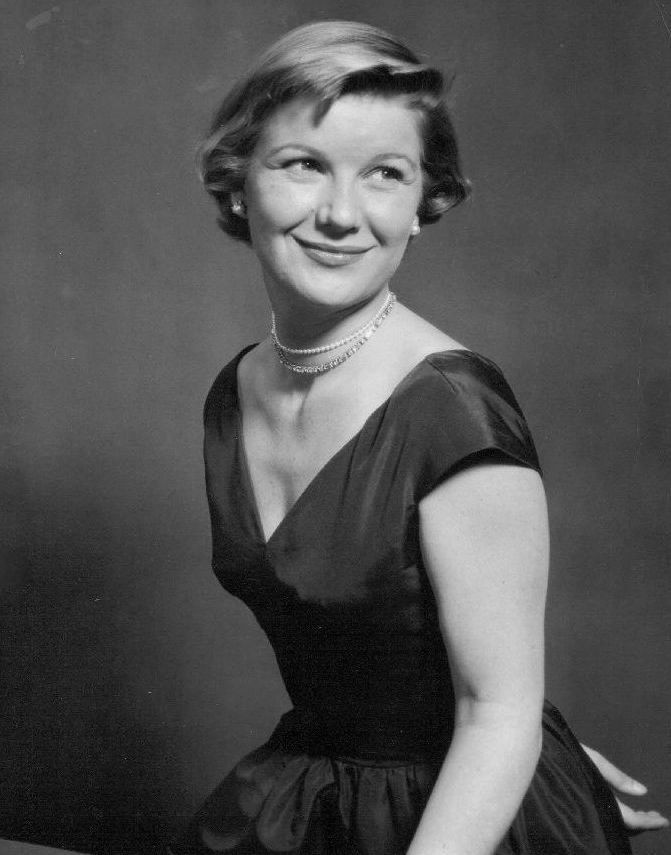 Publicity photo of Barbara Bel Geddes in 1952